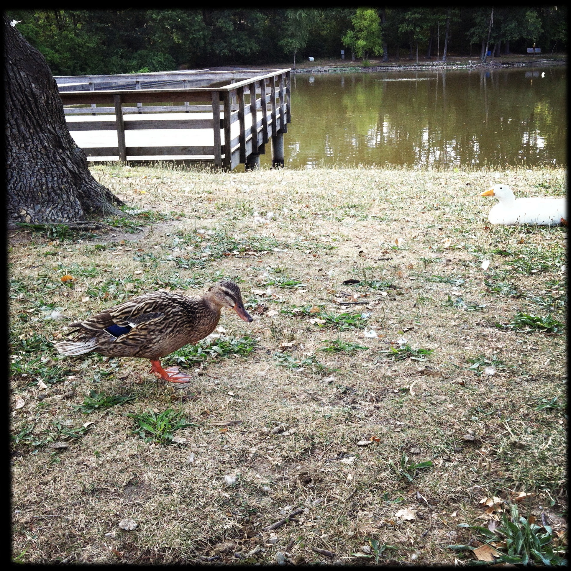 A painfully hot day in Tilles Park (Ladue, MO). Other ducks were panting, which I had never seen before.